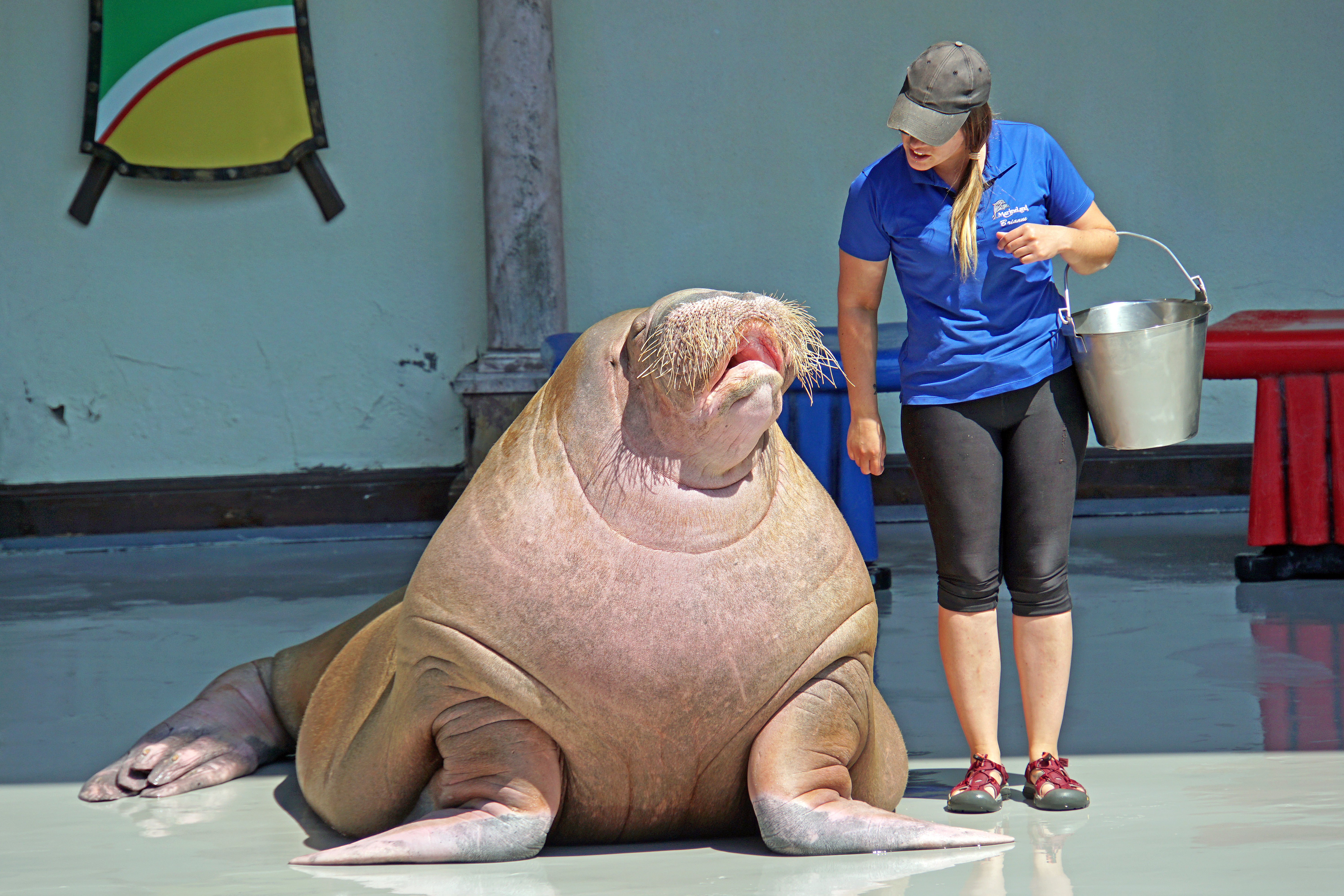 Walrus in Marineland, Ontario, Canada.